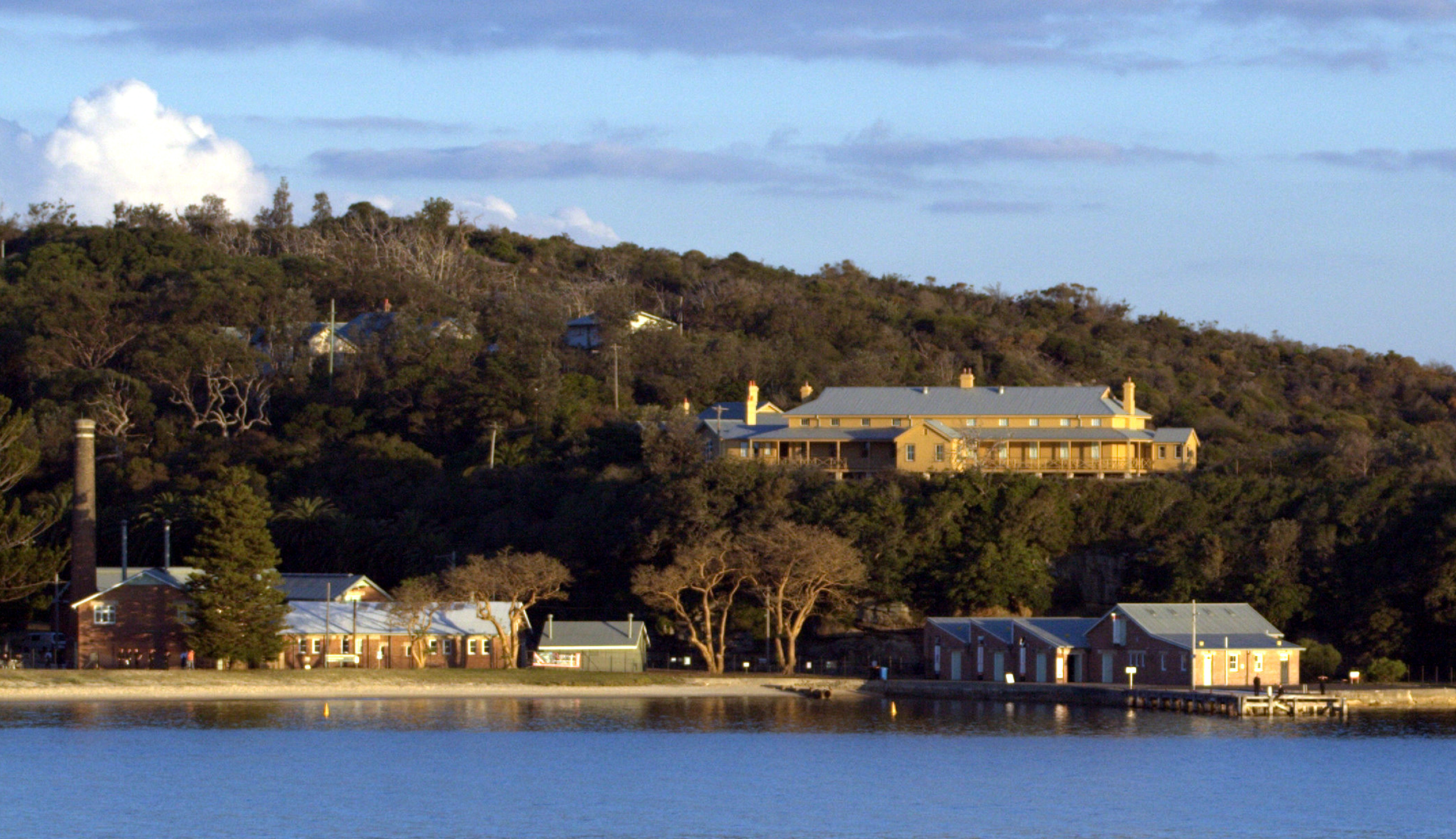 Hospital, Boiler House and Wharf at Quarantine Station, with humpback whales passing by, North Head, Sydney